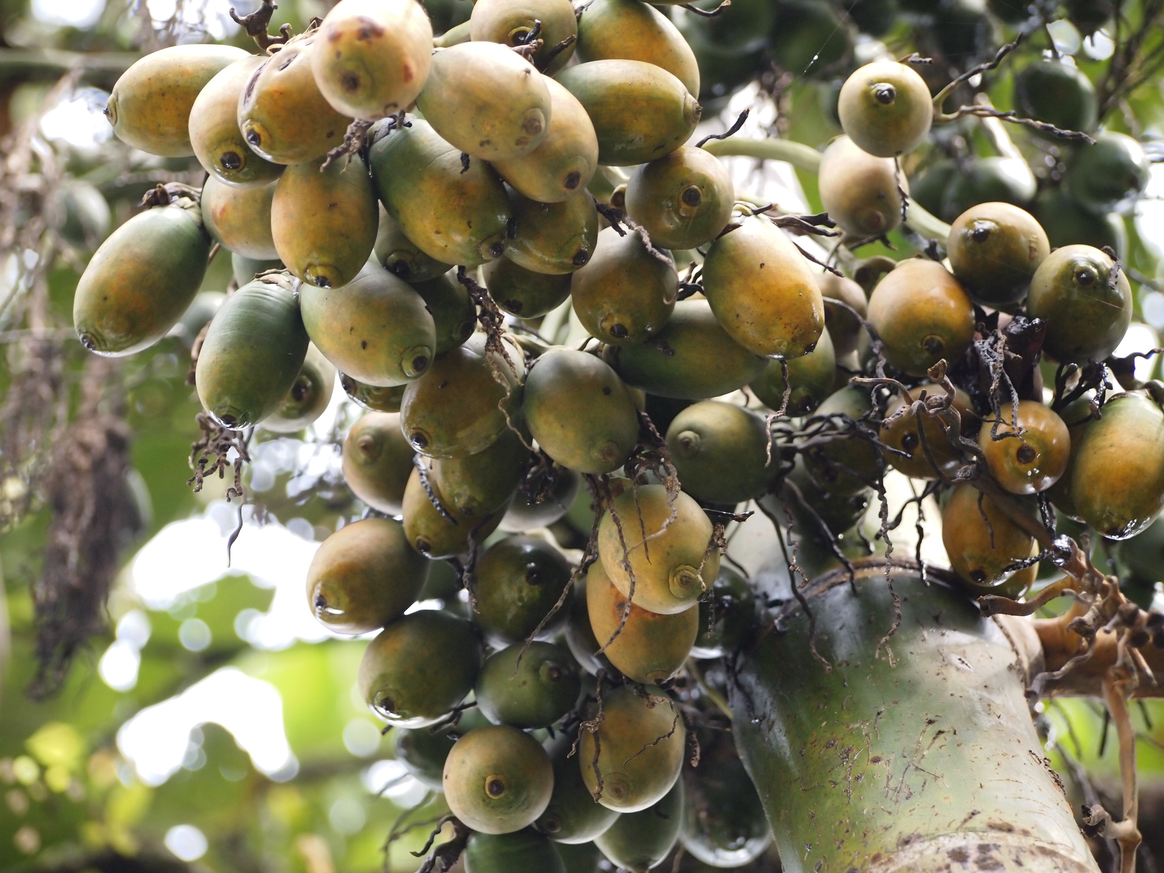 Young beetlenuts (Areca catechu) in Malaysia